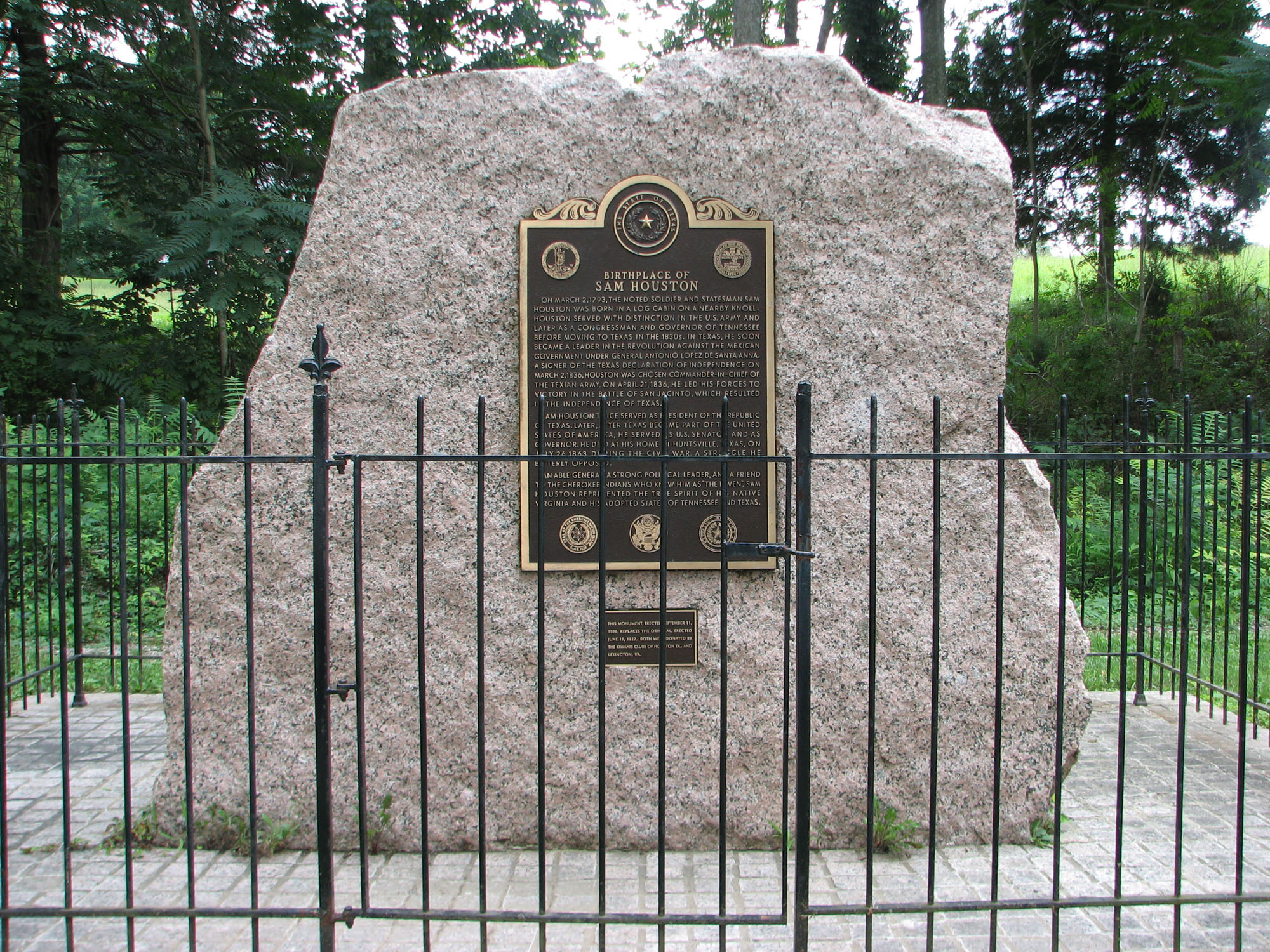 Photograph of the historical place marker for Sam Houston's birthplace in Virginia.